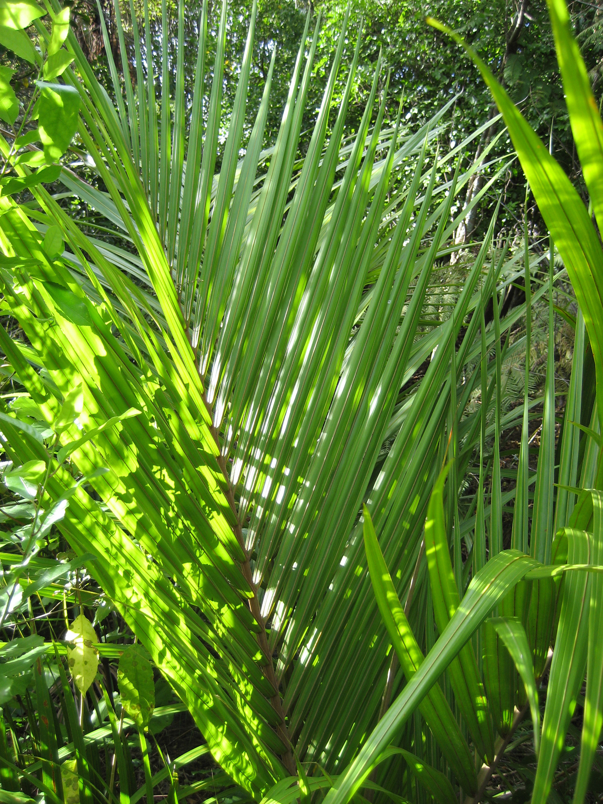 Frond of Rhopalostylis sapida (Nīkau palm), Auckland, New Zealand